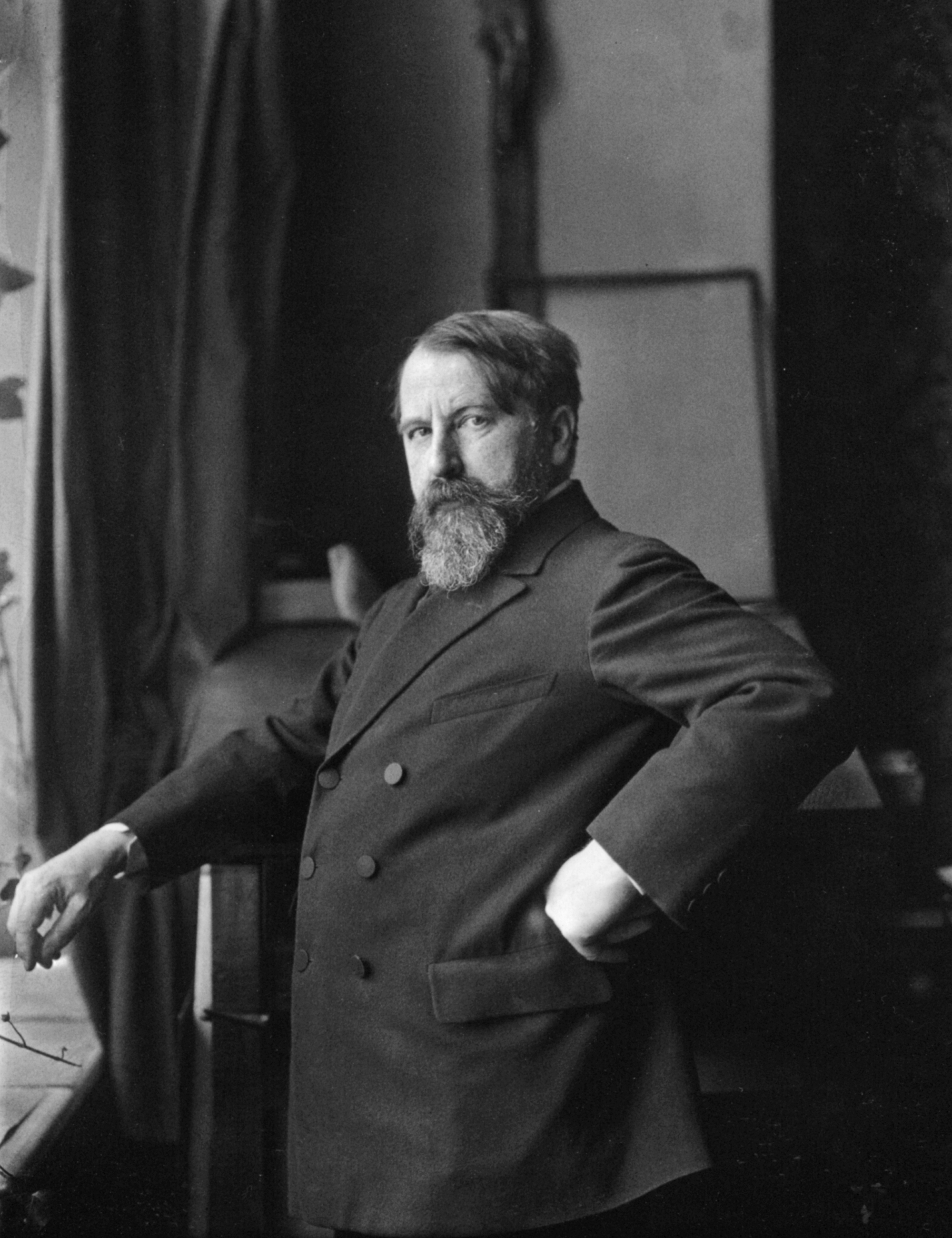 Austrian author Arthur Schnitzler